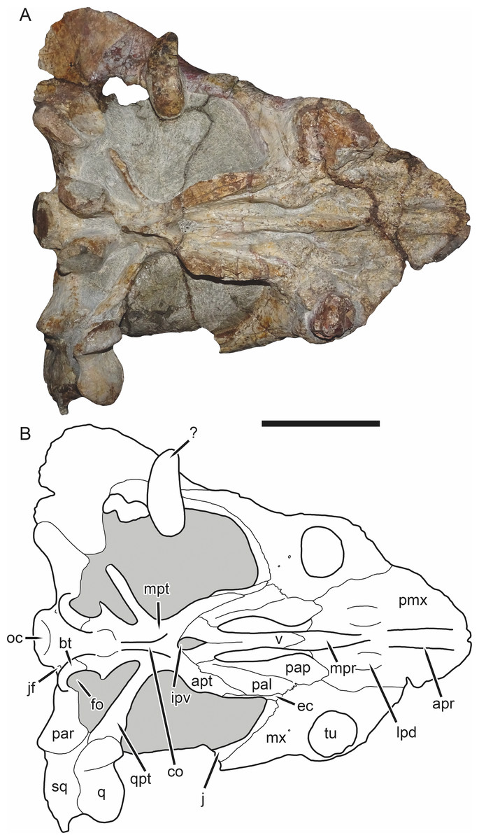 Figure 5: SAM-PK-K11235, holotype of Bulbasaurus phylloxyron gen. et sp. nov., in ventral view. (A) photograph and (B) interpretive drawing. Abbreviations: ?, unknown bone; apr, anterior palatal ridge; apt, anterior pterygoid ramus; bt, basal tuber; co, crista oesophagea; ec, ectopterygoid; fo, fenestra ovalis; ipv, interpterygoid vacuity; j, jugal; jf, jugular foramen; lpd, lateral premaxillary depression; mpr, median palatal ridge; mpt, median pterygoid plate; mx, maxilla; oc, occipital condyle; pal, palatine; pap, palatine pad; par, paroccipital process; pmx, premaxilla; q, quadrate; qpt, quadrate ramus of pterygoid; sq, squamosal; tu, tusk; v, vomer. Gray indicates matrix. Scale bar equals 5 cm.